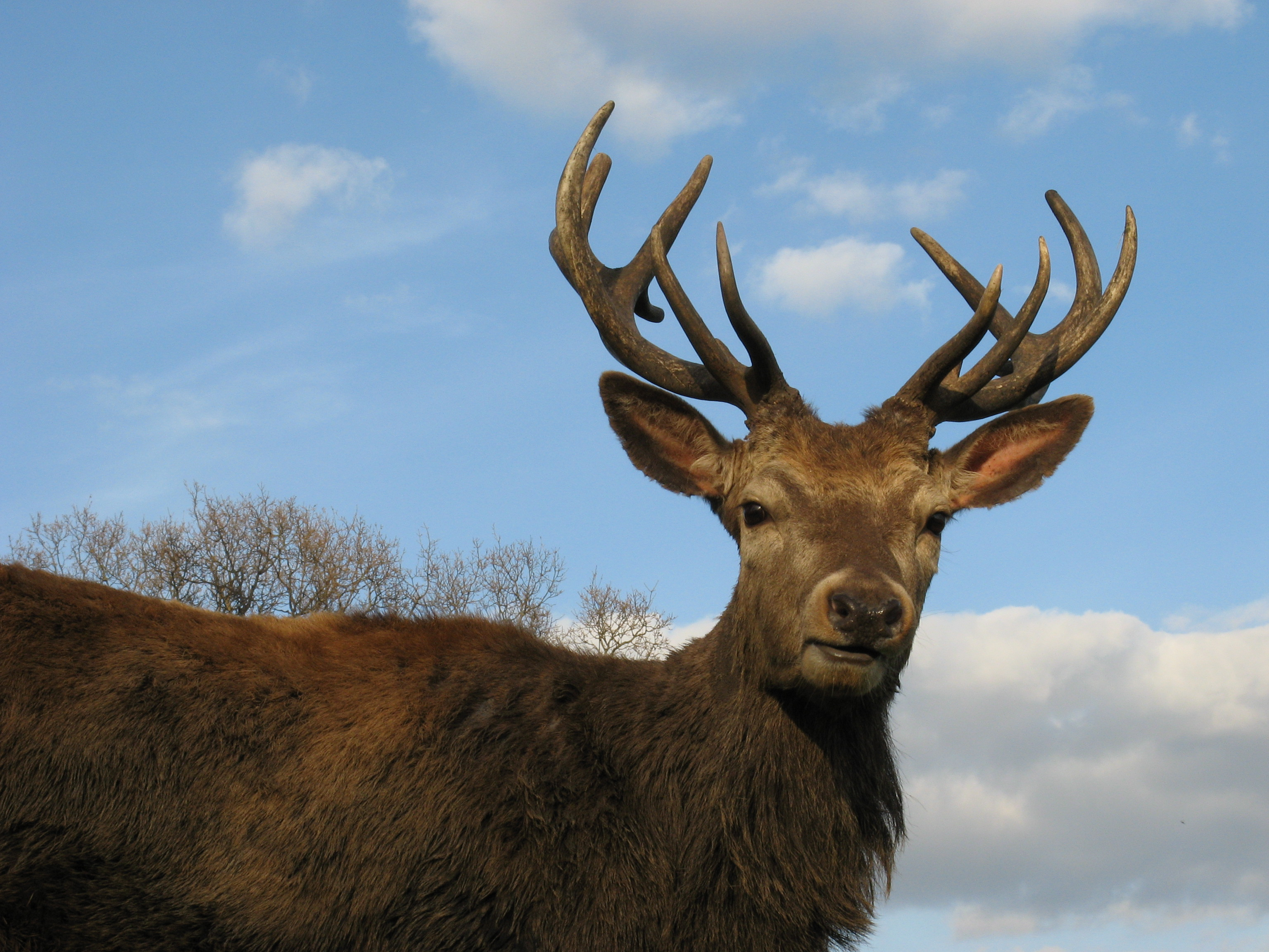 Red deer stag, Wollaton Park, Nottingham, UK